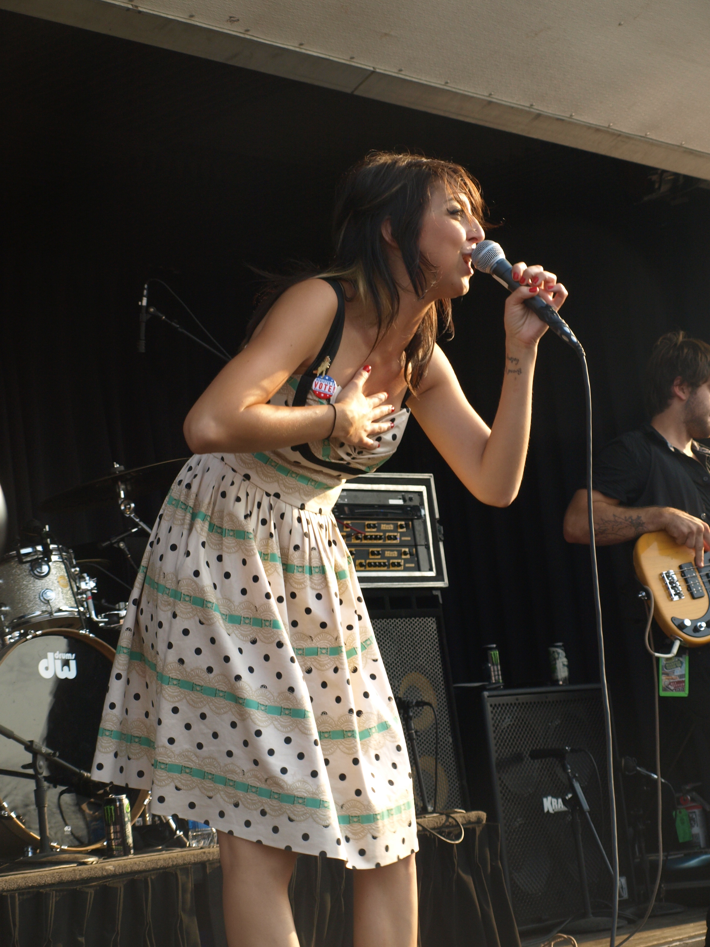 Photo of artist Charlotte Sometimes performing at the Warped Tour 2008 in Englishtown, New Jersey.